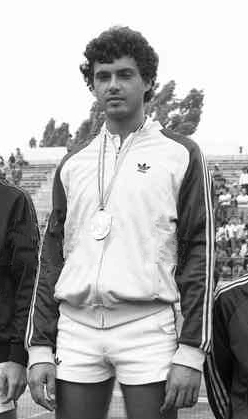 Summer Universiade in Bucharest. Andrei Dirzu won a gold medal in tennis doubles.